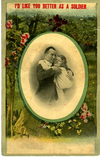 Old postcards